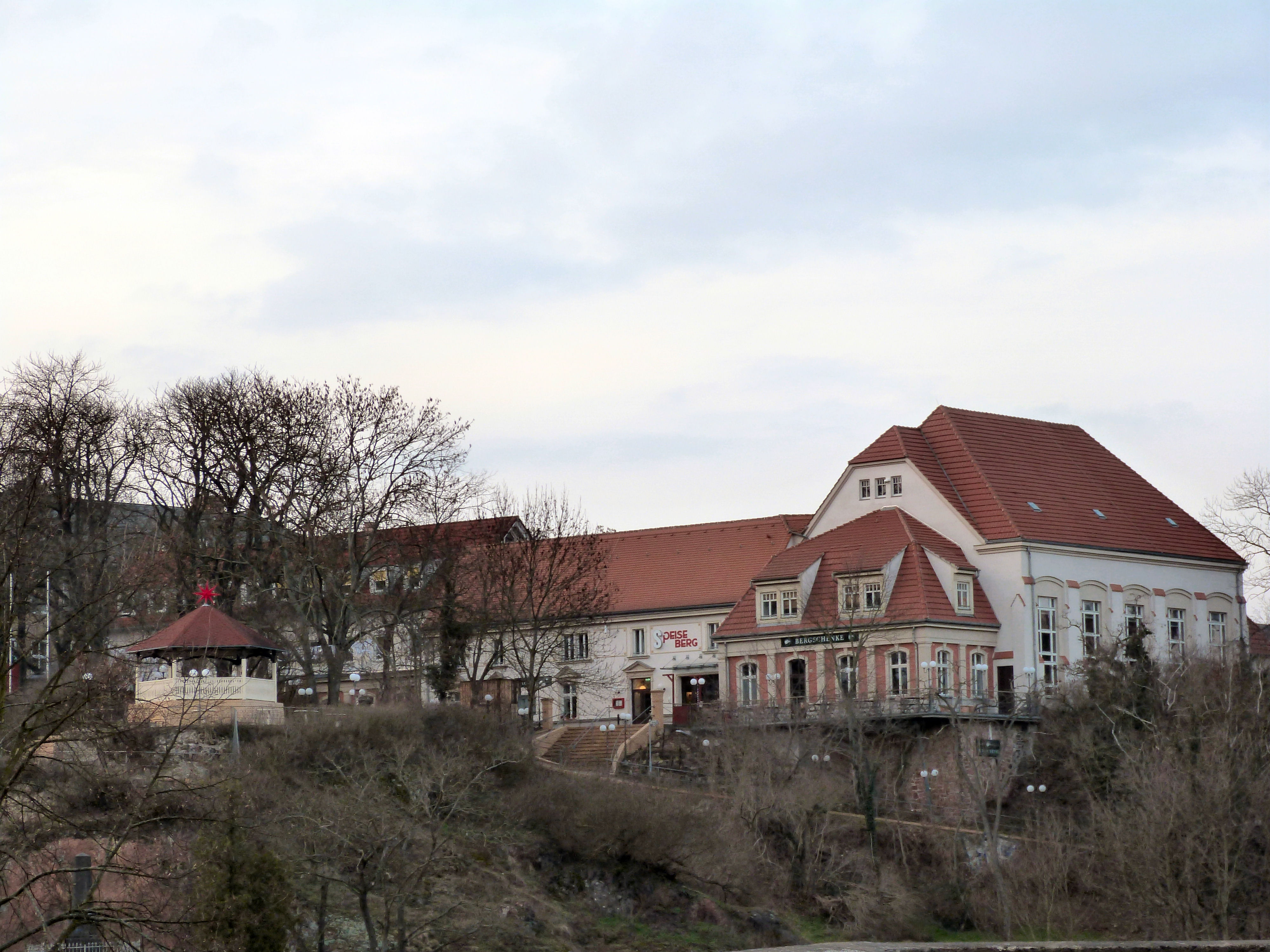 Restaurant and beer garden Bergschenke, Kröllwitzer Strasse, Halle (Saale)